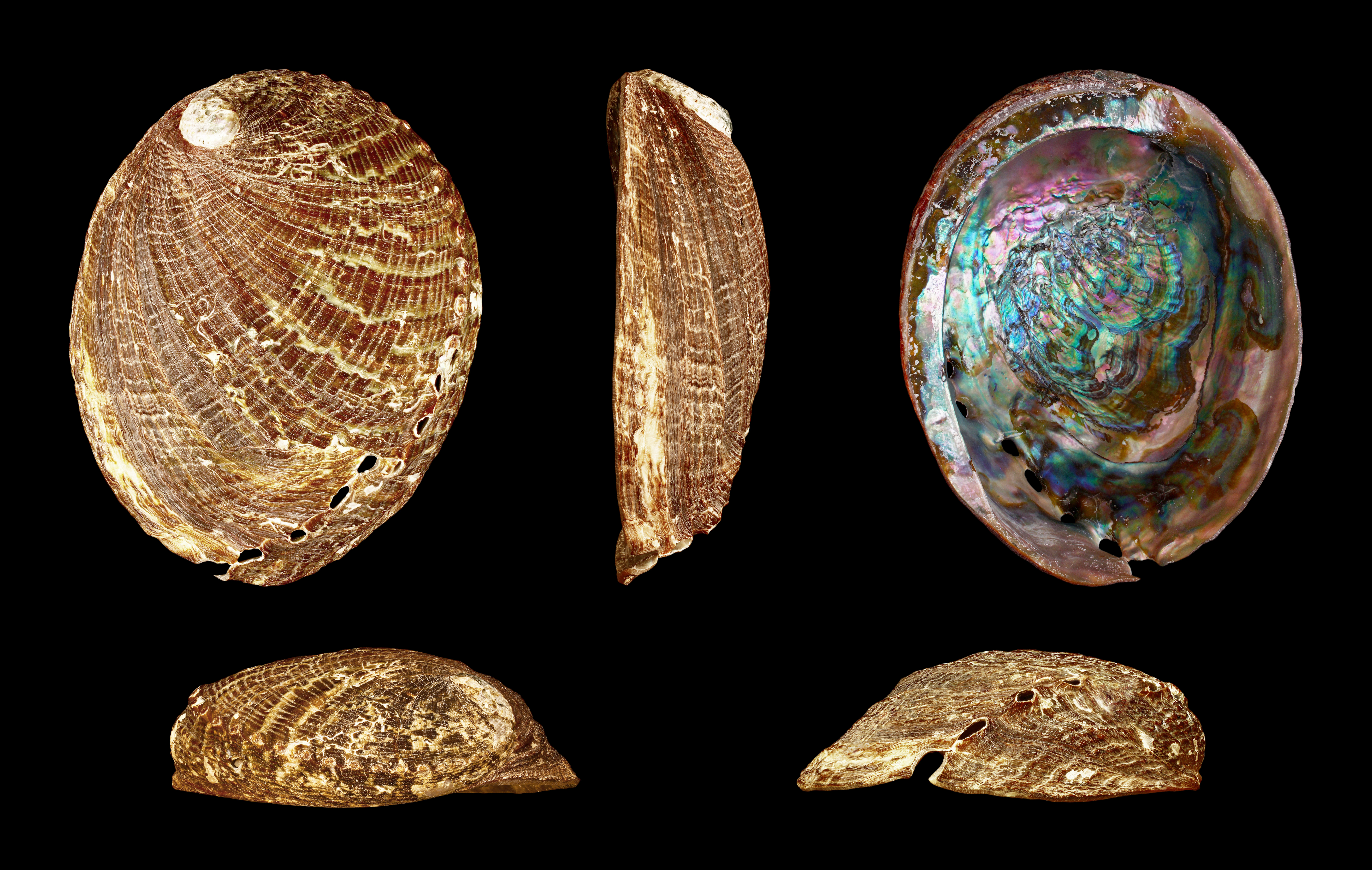 Green Abalone; Length 13 cm; Originating from Baja California, Mexico; Shell of own collection, therefore not geocoded